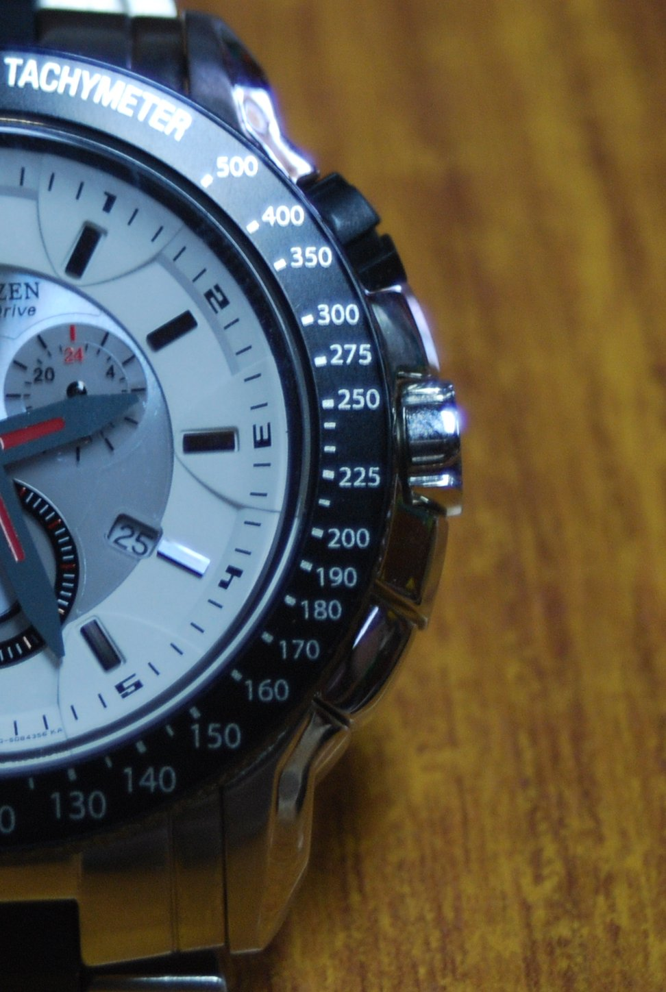 Close-up of a Citizen watch with a Tachymeter scale on its bezel.